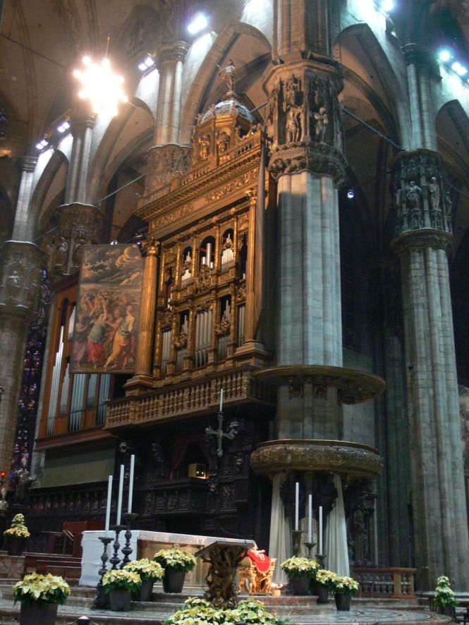 one of great organs on the Duomo di Milano (Italy) (from 1395 to 1986)